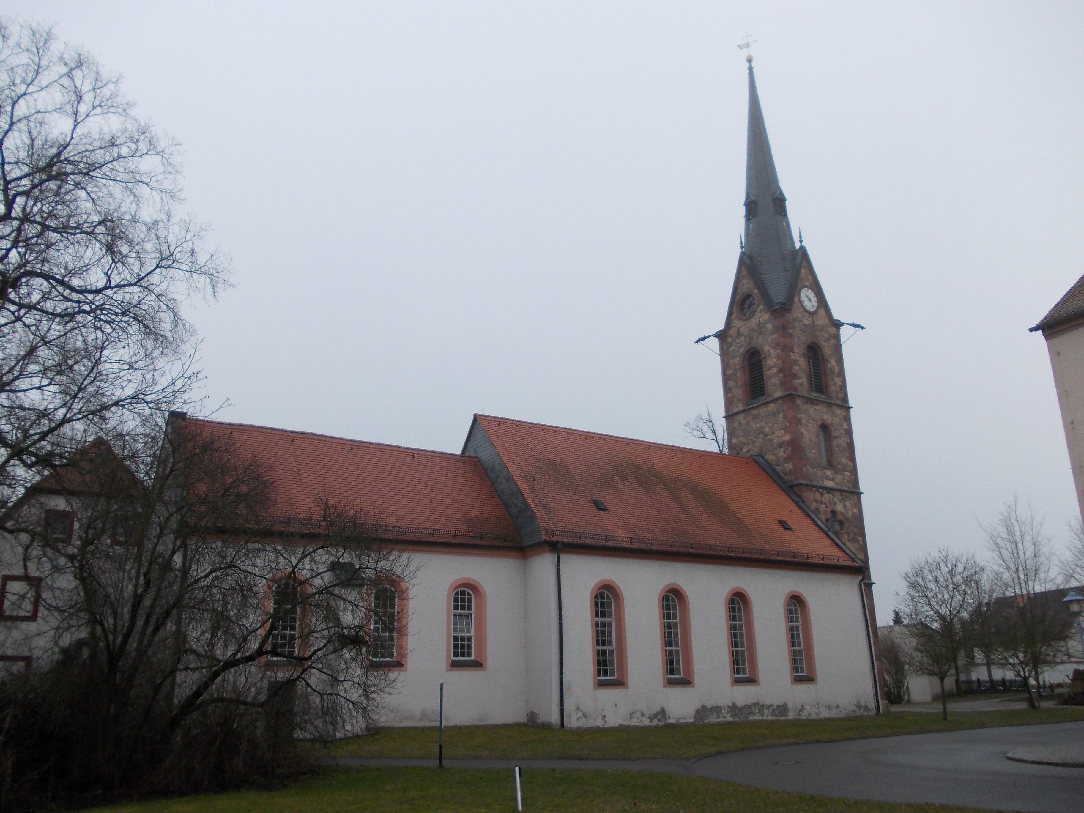 St. George's Church in Regis (Regis-Breitingen, Leipzig district, Saxony)